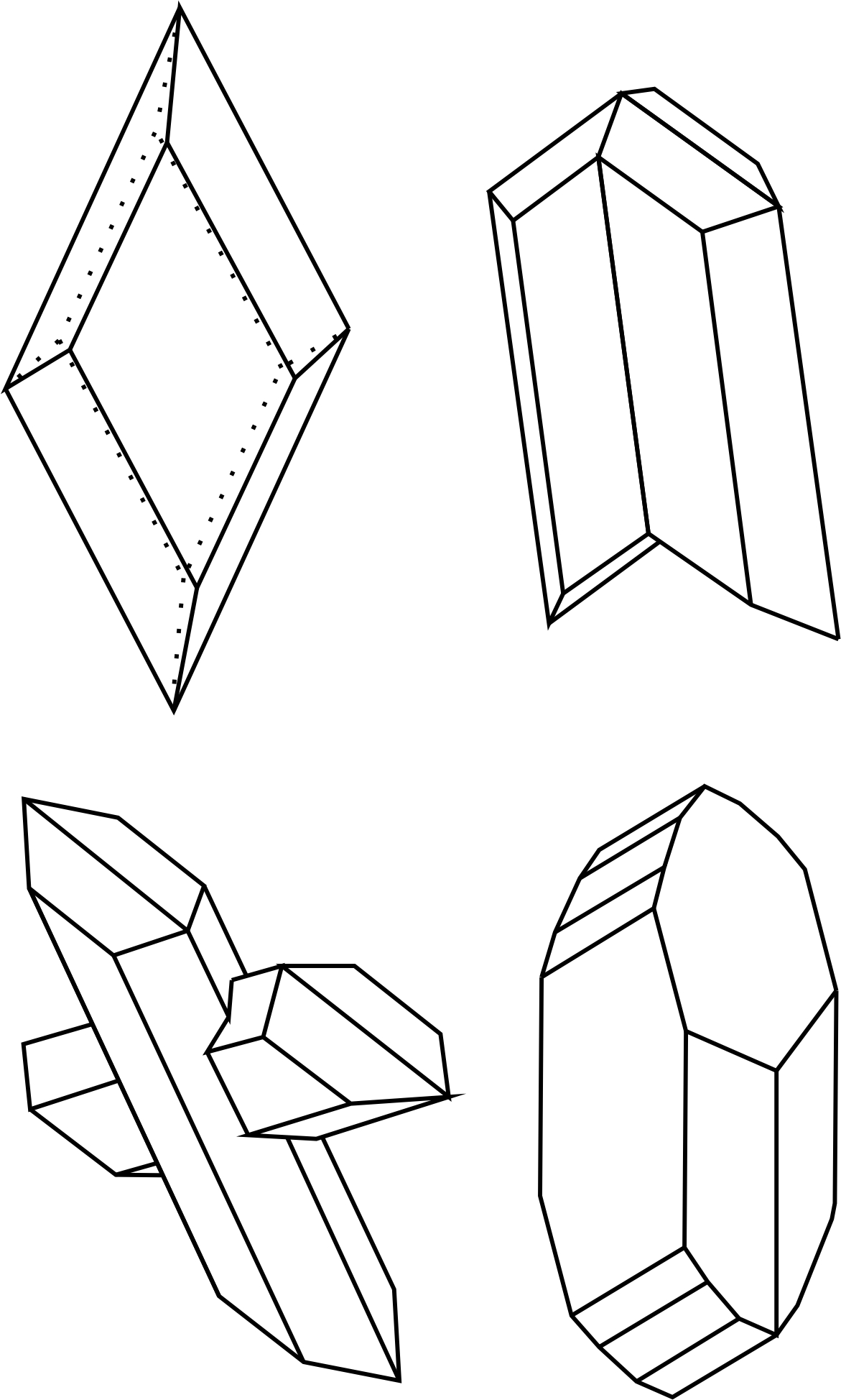 Gypsum habits